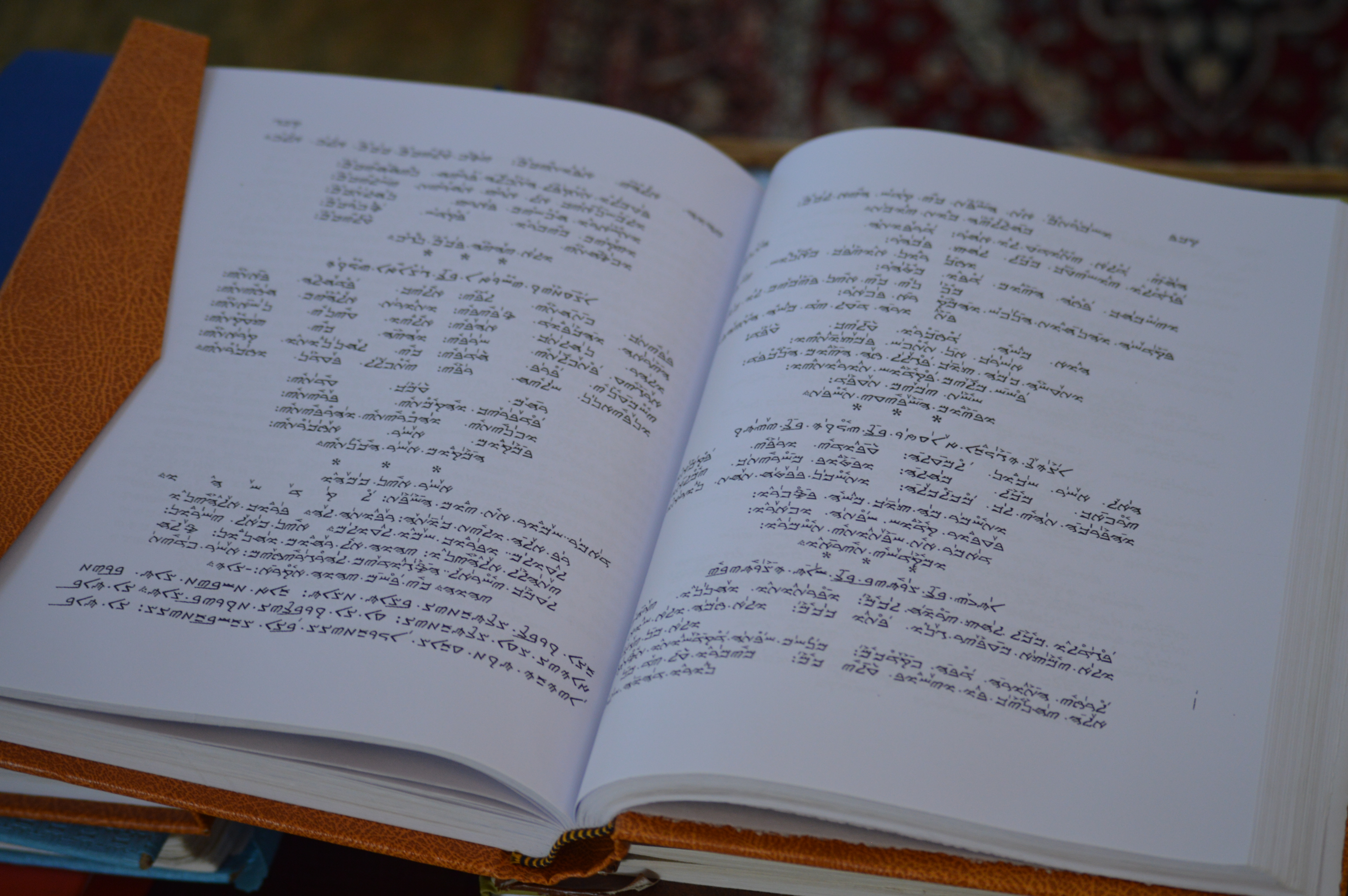 Mount Gerizim Samaritan synagogue